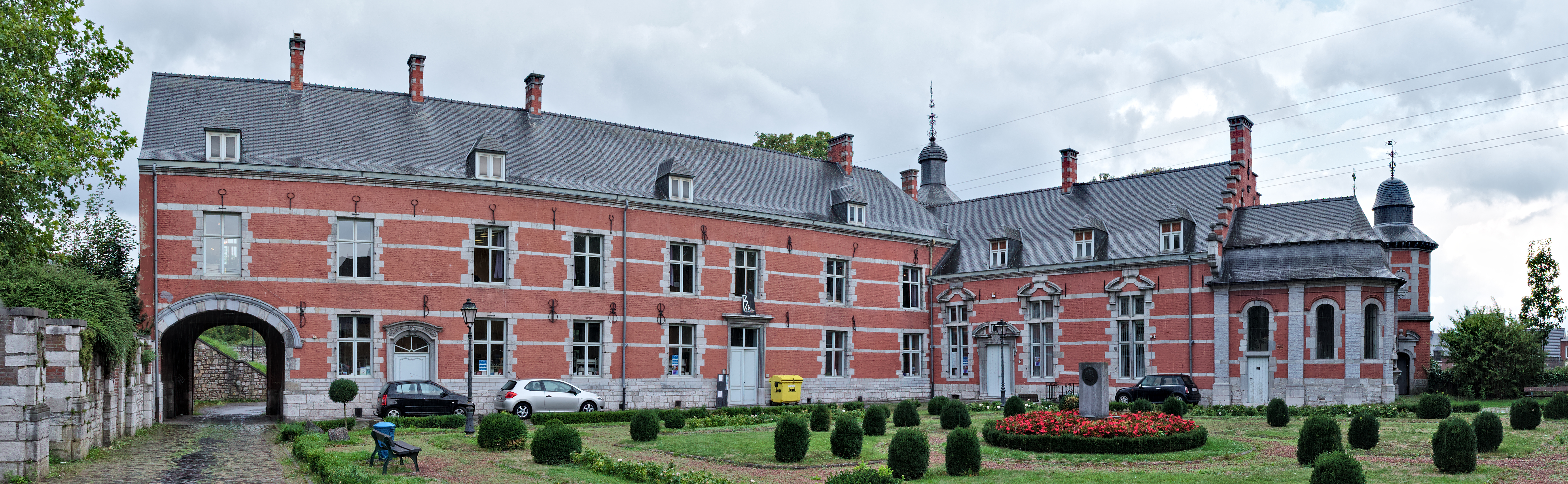 Château Bilquin-de Cartier on a rainy day in Marchienne-au-Pont, Charleroi This photo of immovable heritage has been taken in the Walloon Region